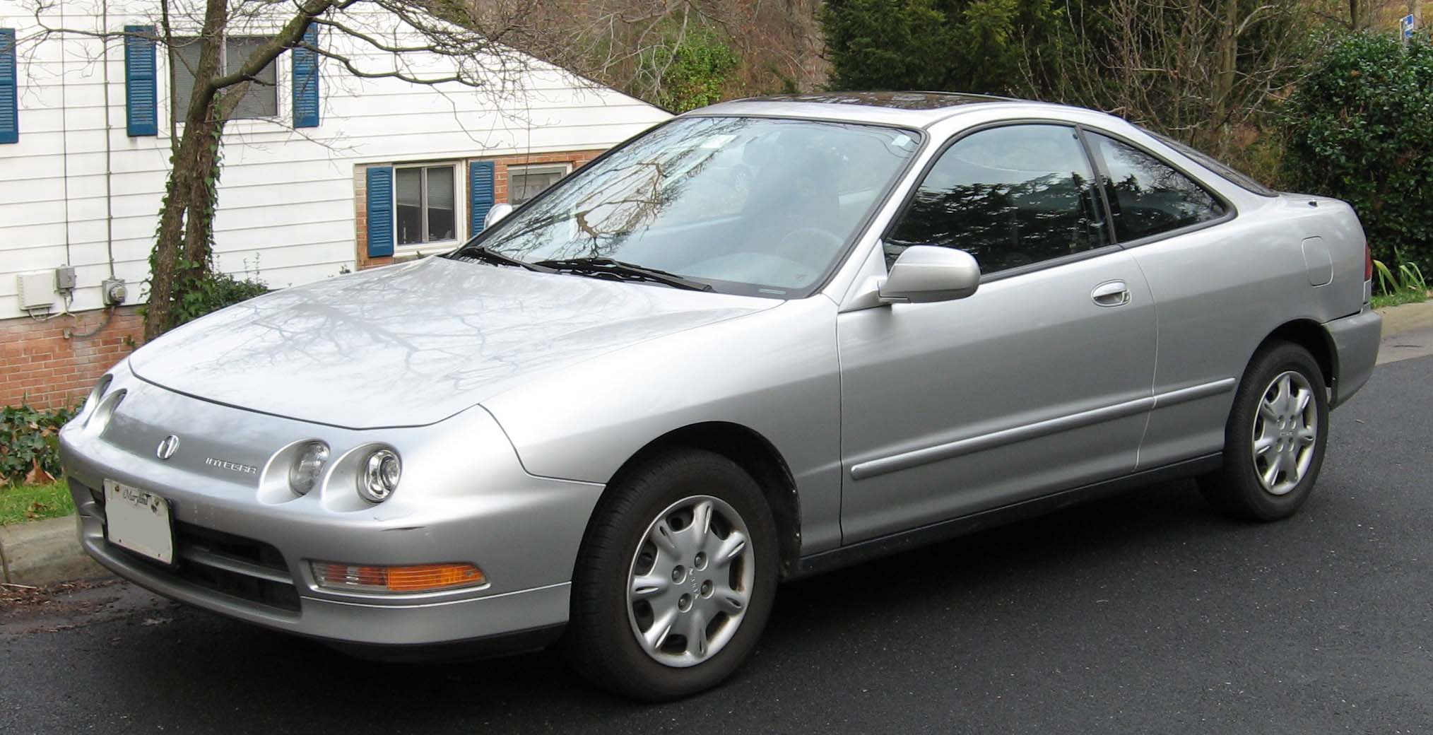 1994-2001 Acura Integra photographed in USA.